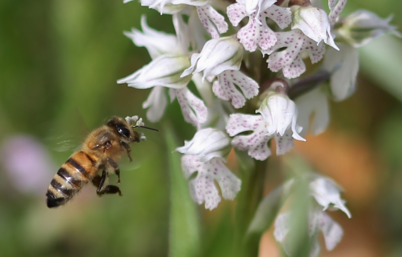 Bee pollinating an Orchis lactea photographed near Toulouse (France)